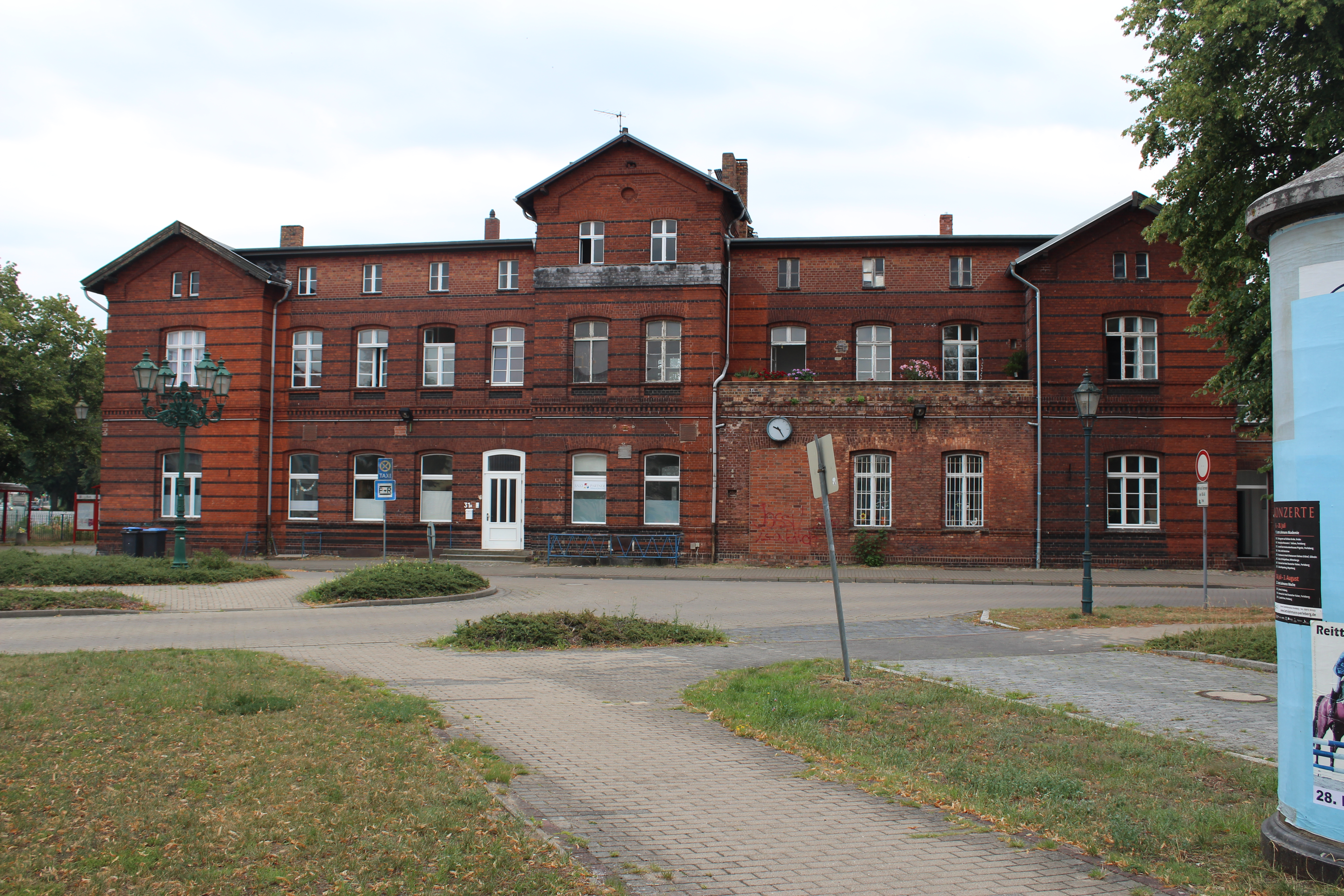 train station Perleberg, station building, street side